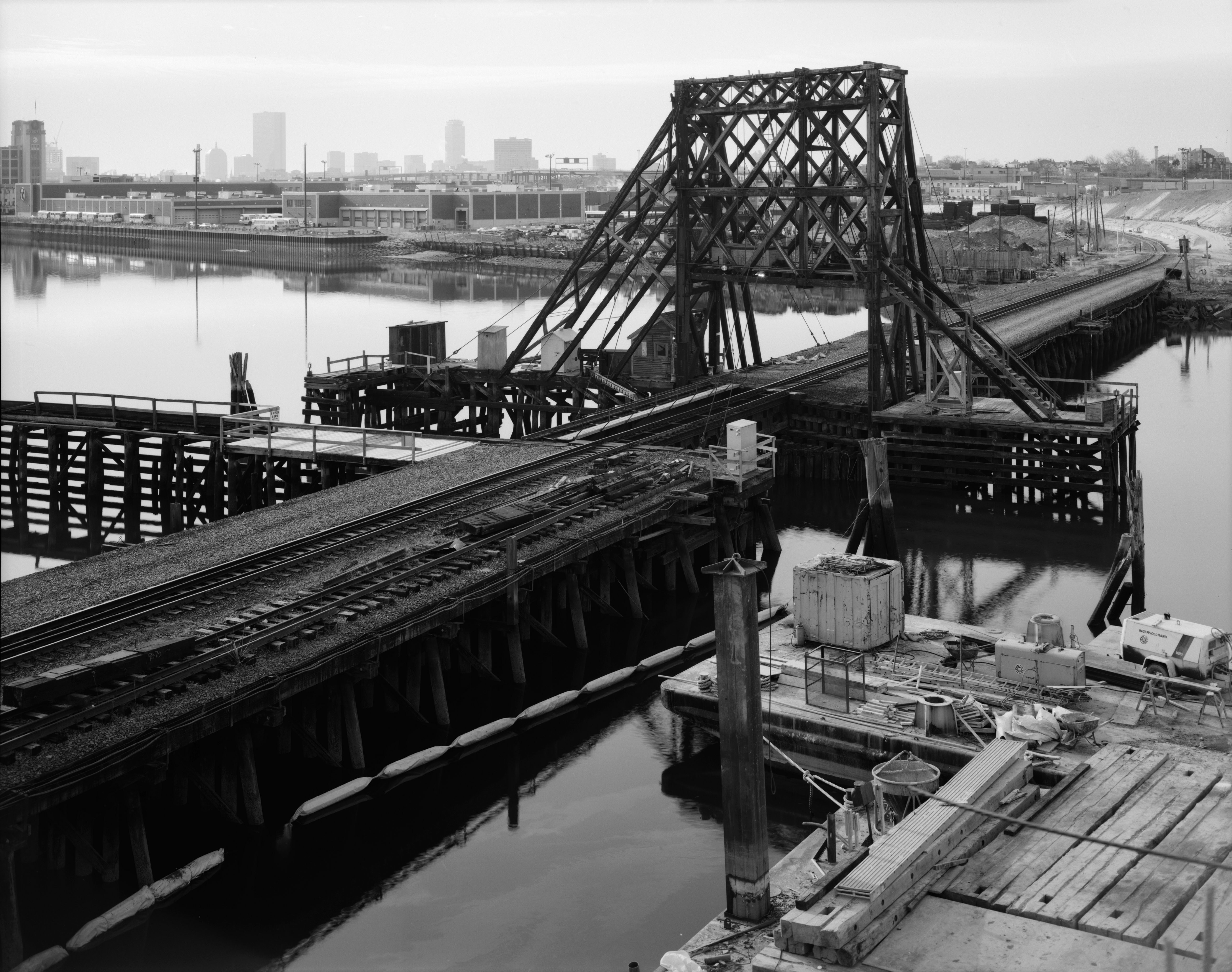 Mystic River Drawbridge No. 7, Spanning Mystic River at Boston & Maine Railroad E, Somerville, Middlesex County, MA. OBLIQUE VIEW OF NORTHWEST SIDE OF MYSTIC RIVER BRIDGE, LOOKING SOUTHEAST FROM NEW (U/C) RAILROAD BRIDGE DECK. Published after 1968. Photographer: John Ross. Repository: Library of Congress, Prints and Photograph Division, Washington, D.C. 20540 USA. The original image is inverted left to right at the Library of Congress.